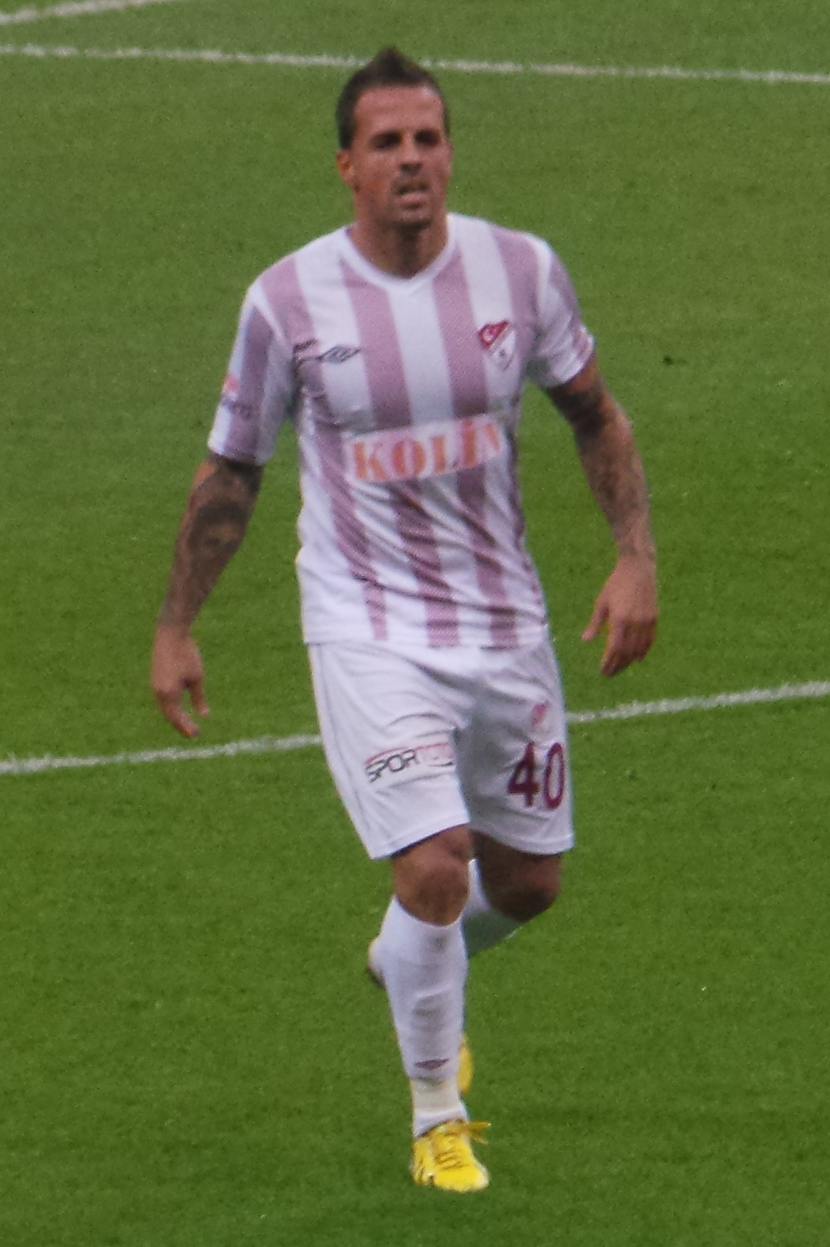 Victor "Vitolo" Añino